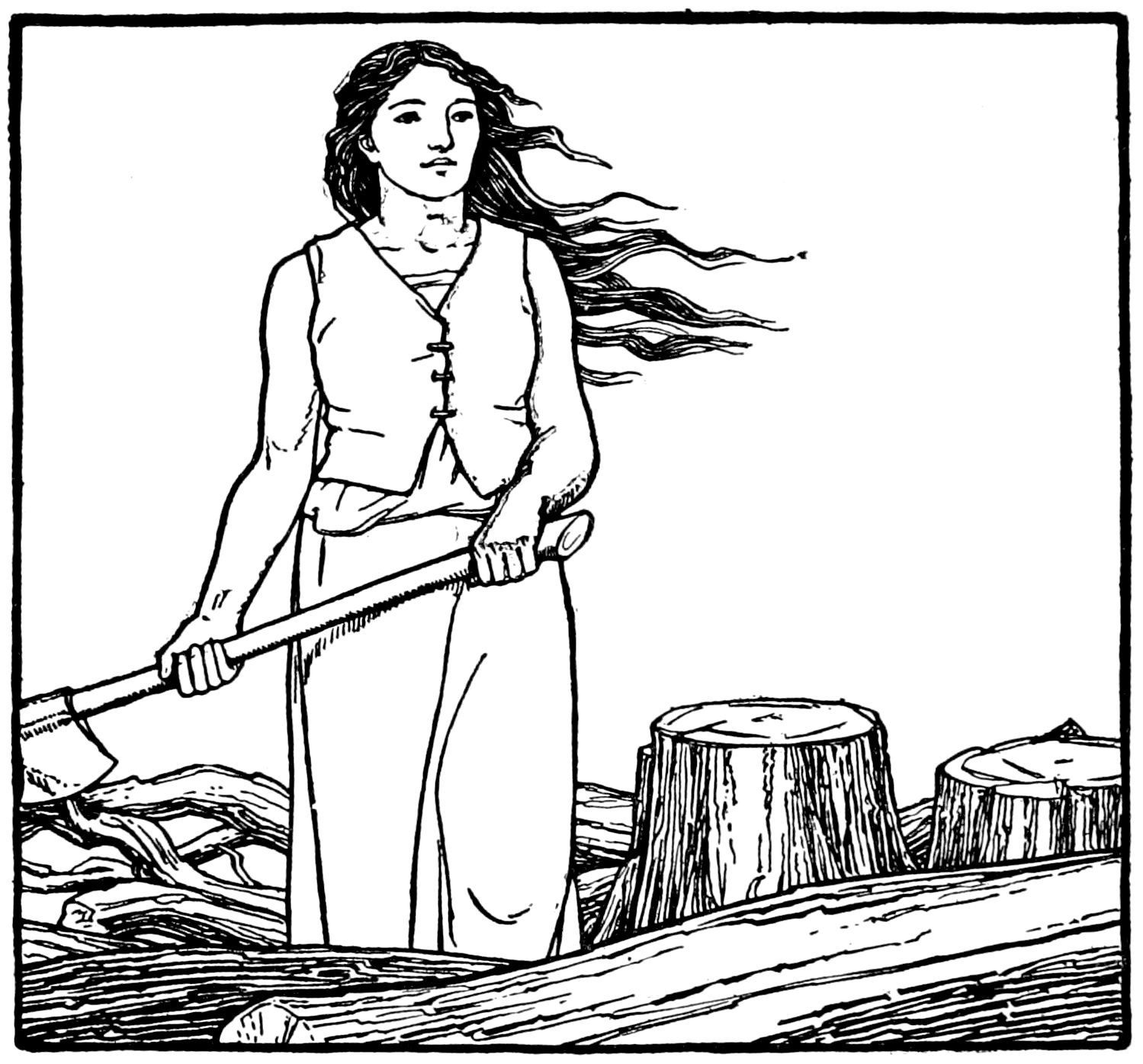 Illustration from a book of fairy tales from Europe, translated into english